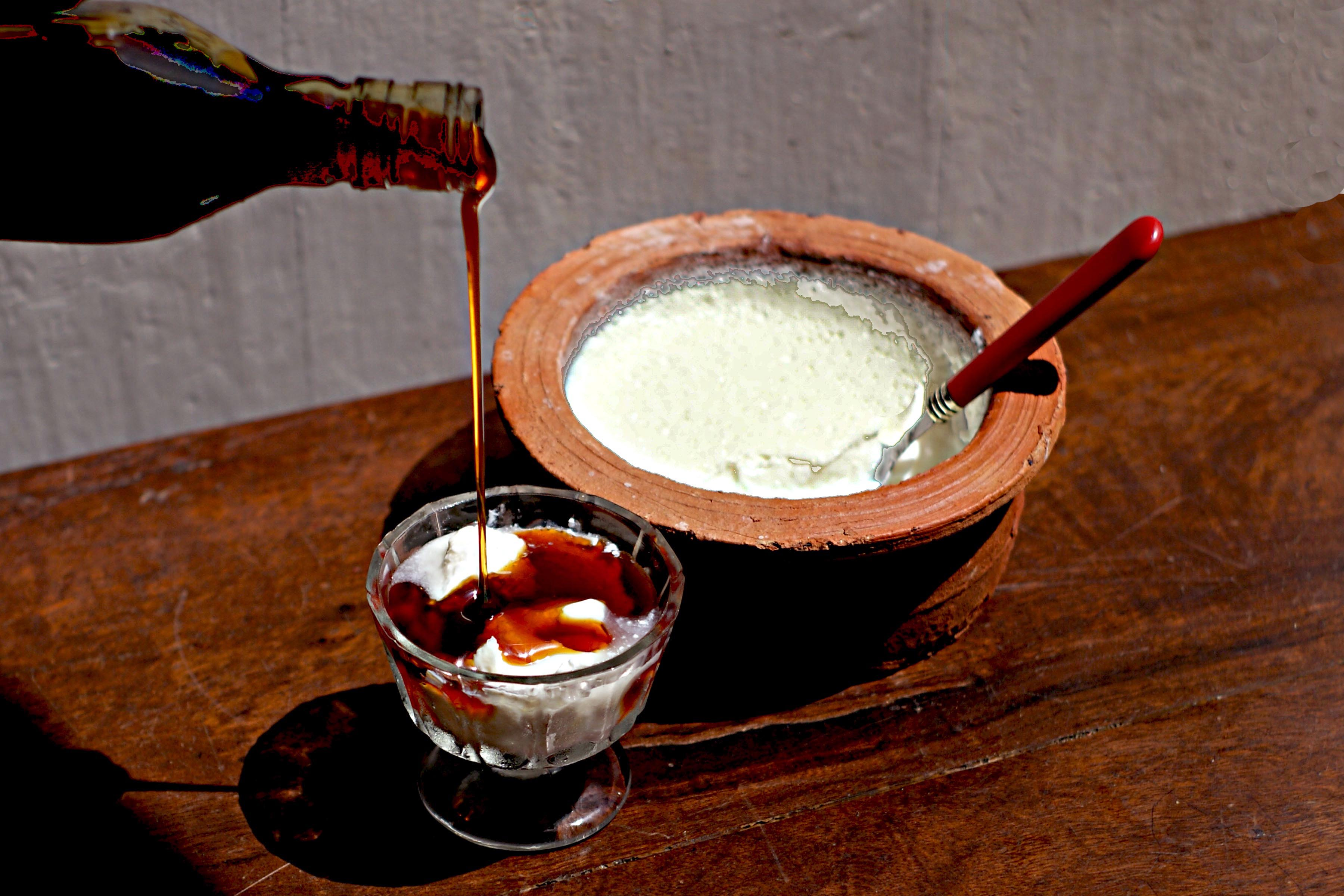 Curd made from Buffalo's milk mixed with Treacle (Sugary syrup) made from the inflorescence of the Kithul palm "Caryota urens" is a favourite item among the people of southern Sri Lanka